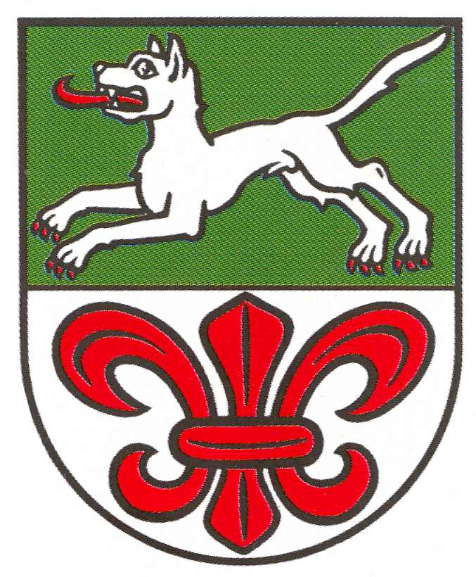 Coat of Arms of Beierstedt